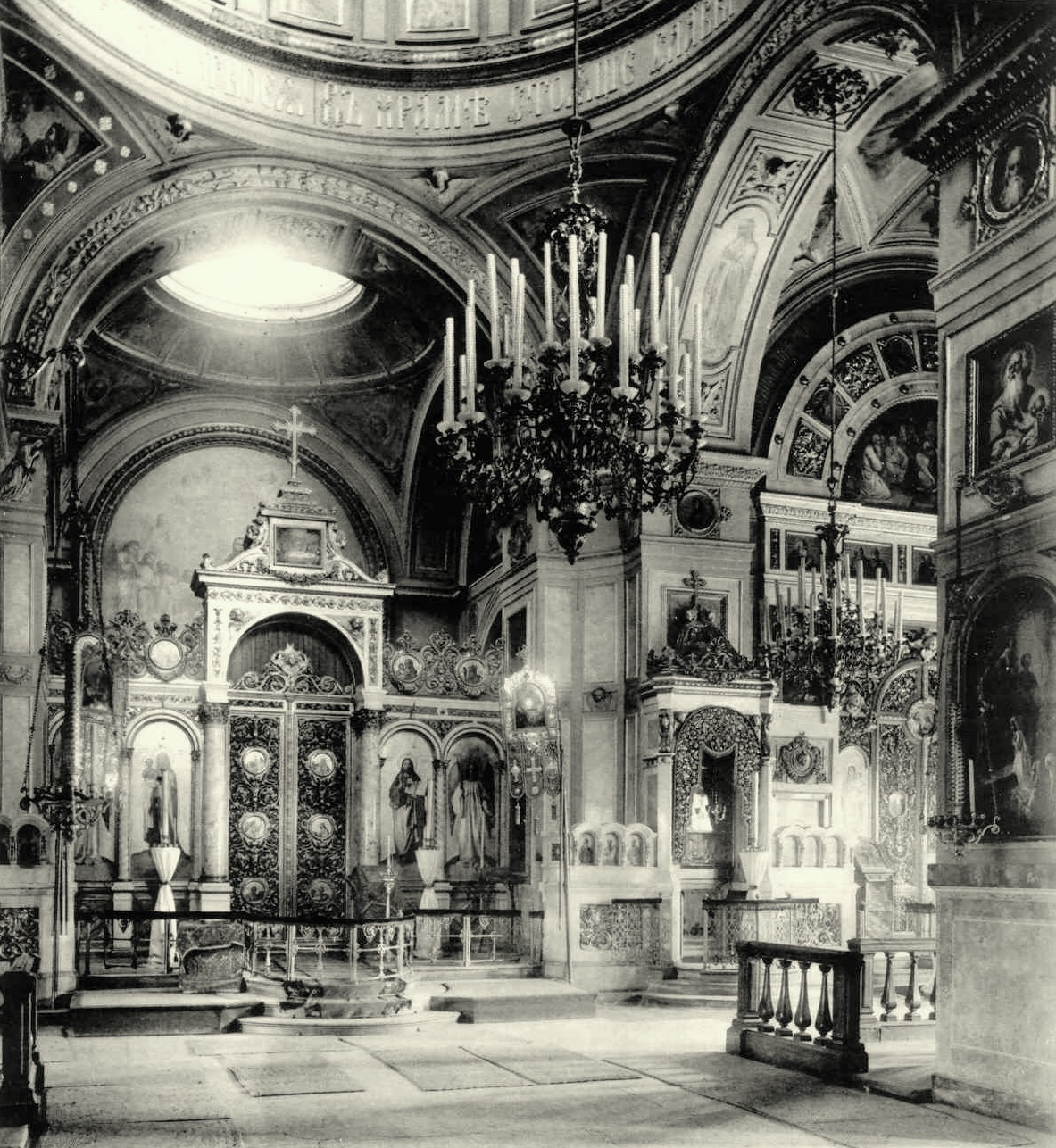 Church of Trinity na Gryazekh, Moscow